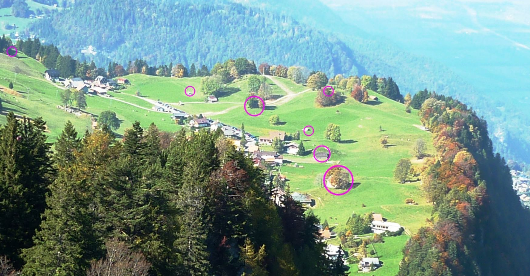 Fort Furkels, Pfäfers SG, Switzerland